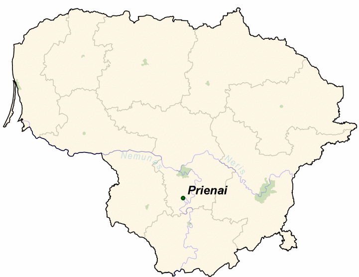 Prienai on the map of Lithuania